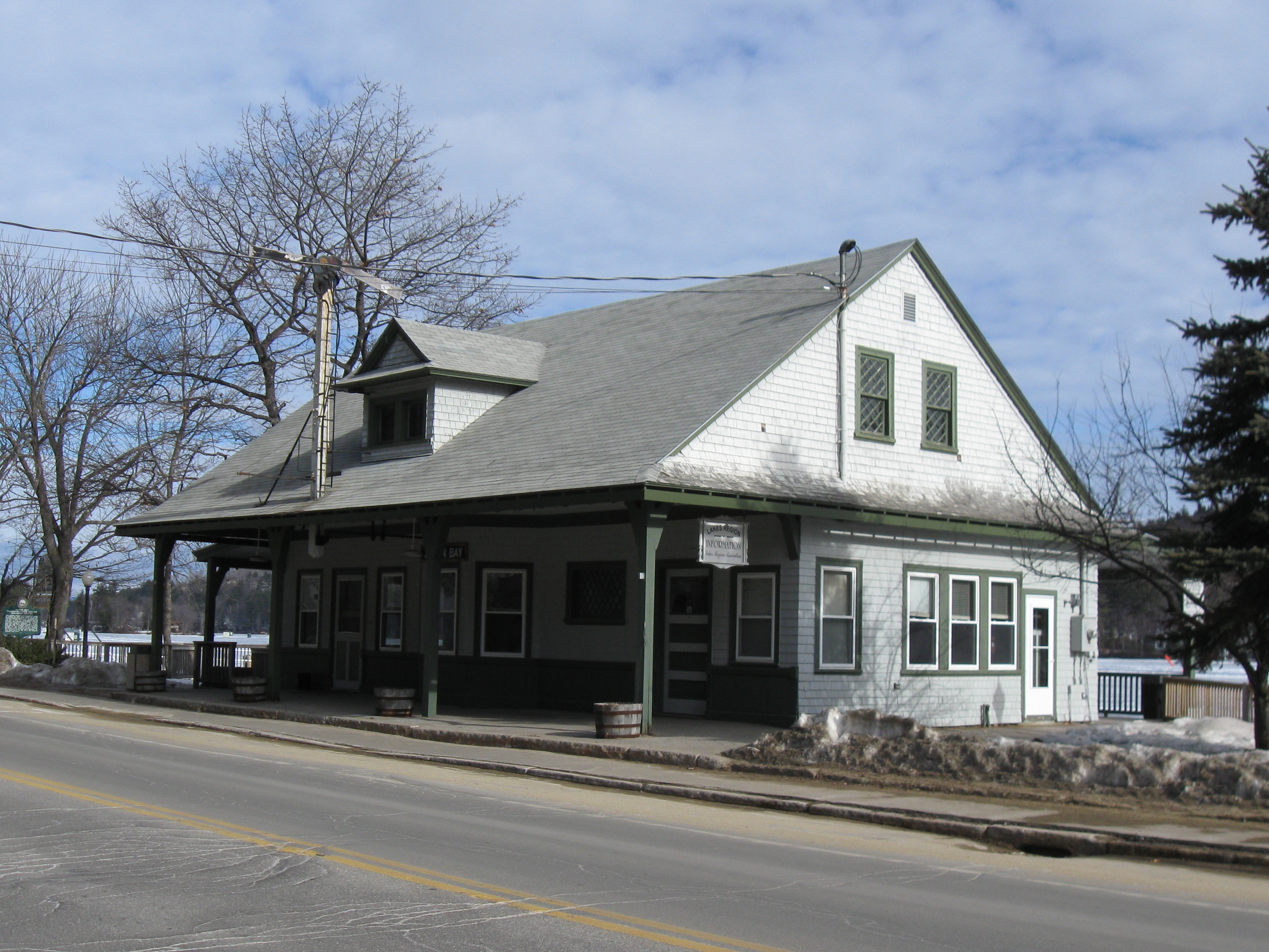 Alton Bay Railroad Station, Alton, New Hampshire. Photo by Ken Gallager, February 15, 2010.